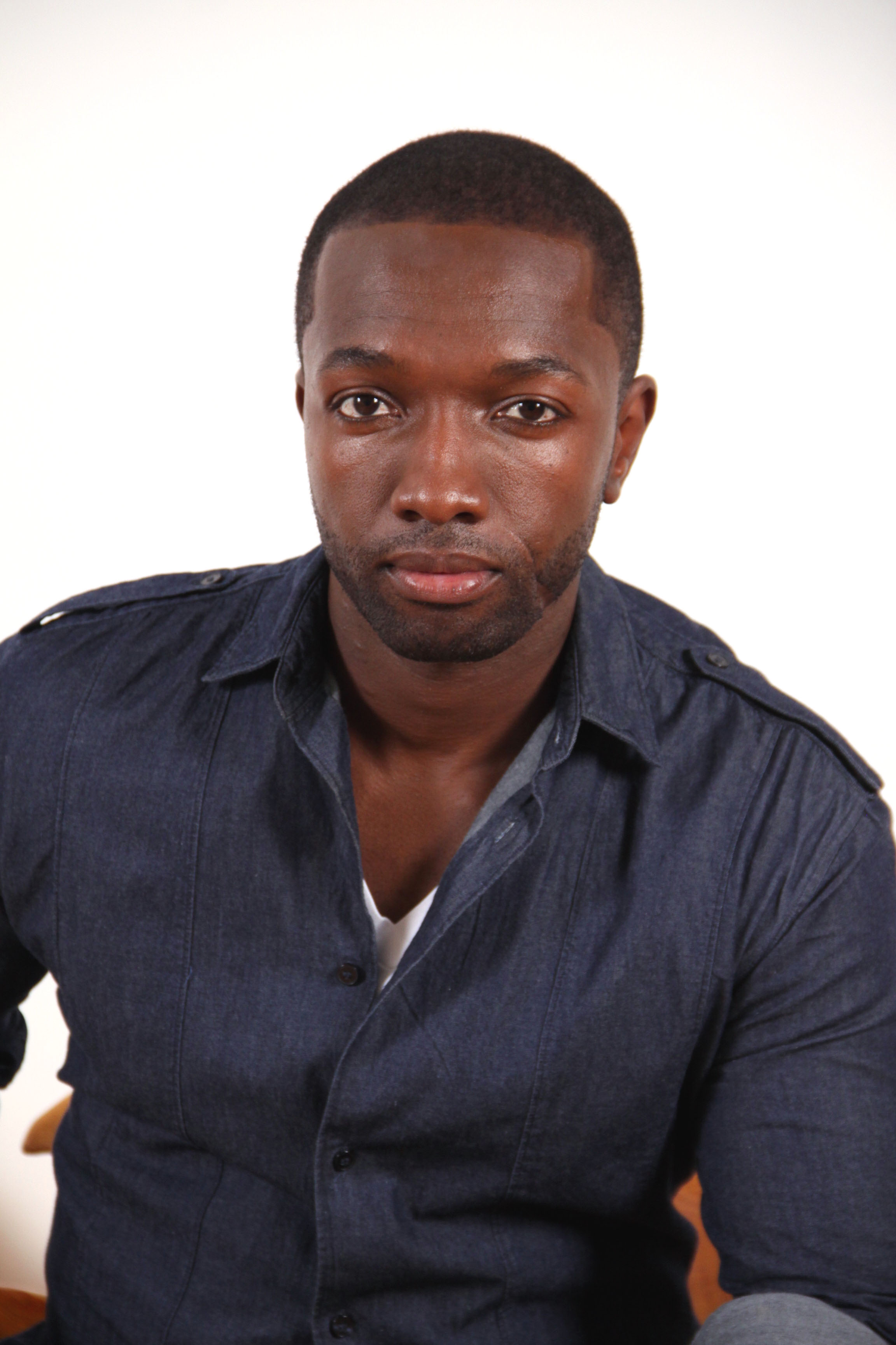 Jamie Hector Moves Mountains for the Arts